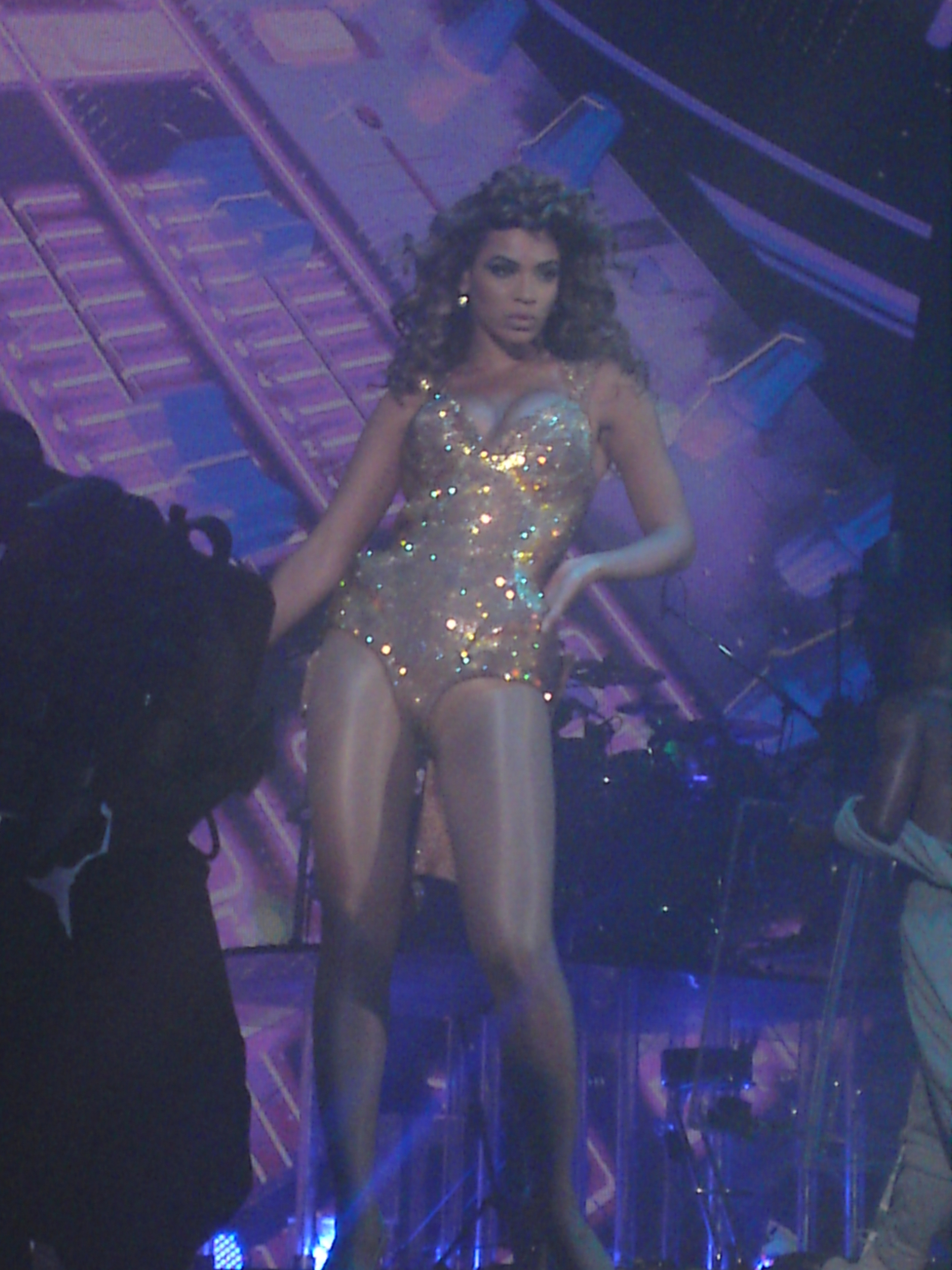 Beyoncé at the beginning of her concert in Zurich at Hallenstadion.